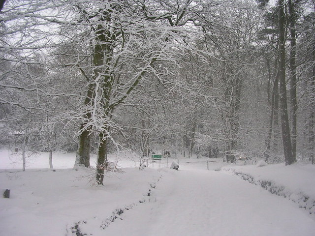 Hazlehead woods in winter